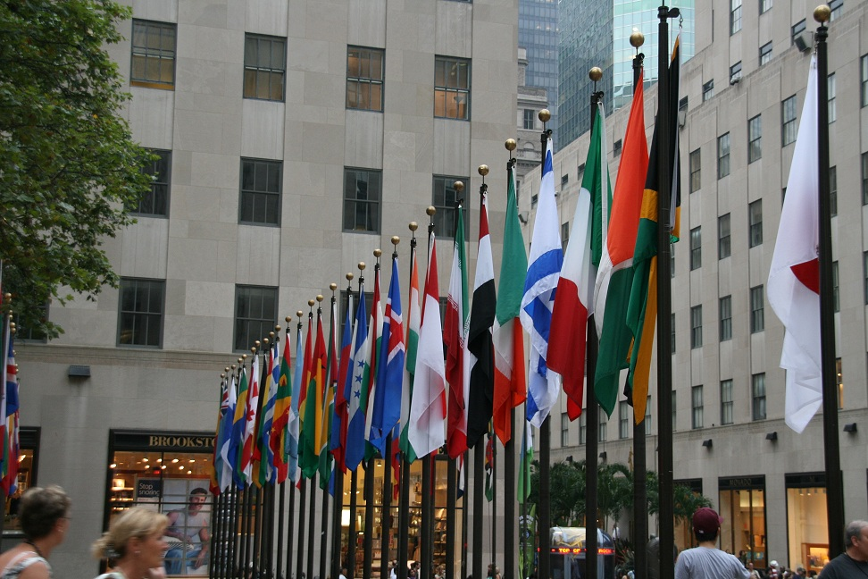 Flags